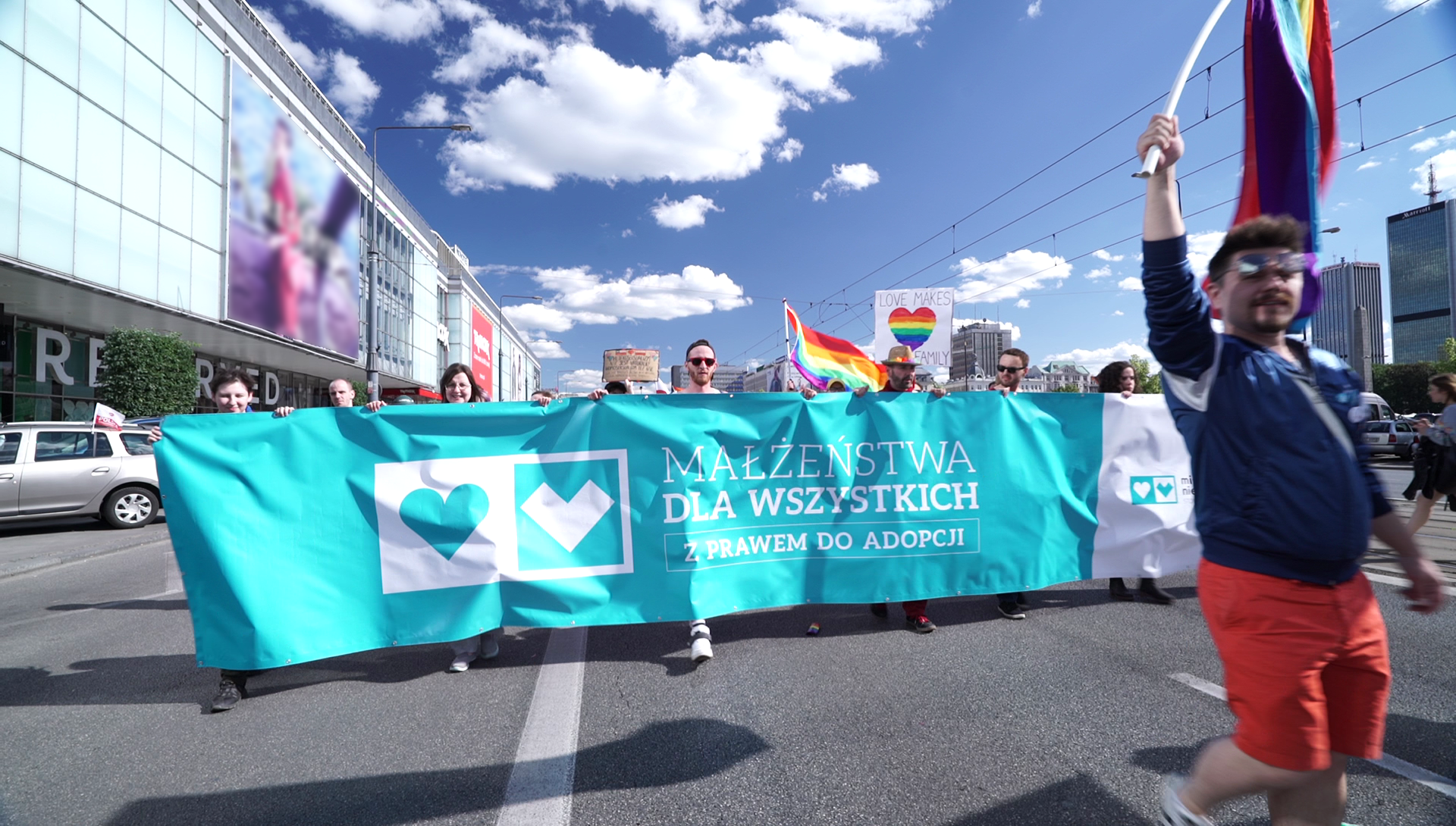 Love Does Not Exclude Association at Equality Parade in Warsaw, 2016